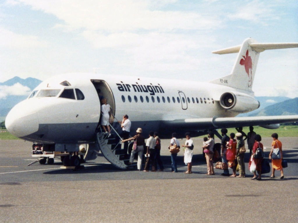 Air Niugini Fokker F28-1000 Fellowship at Lae Airport